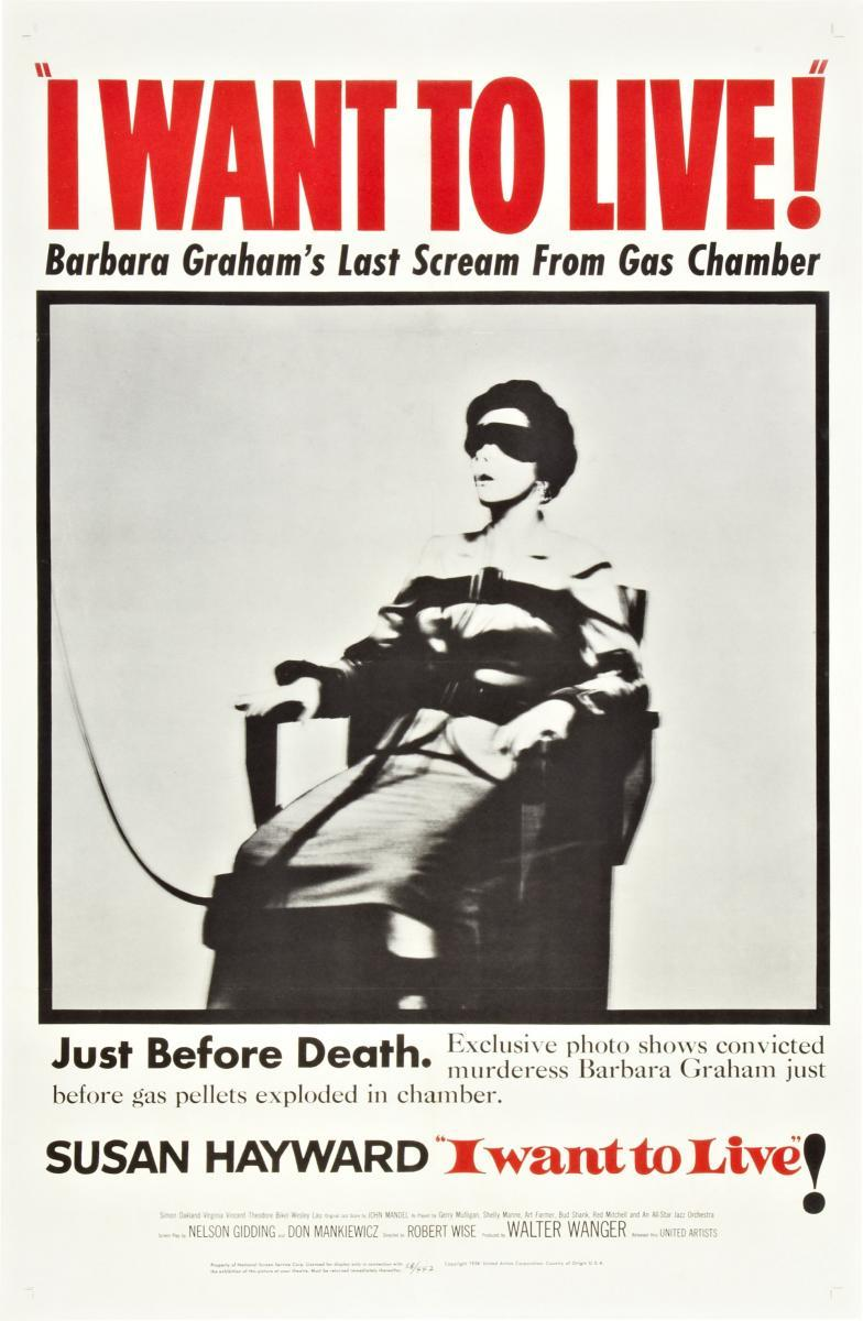 Original master theatrical poster for I Want to Live! (1958)